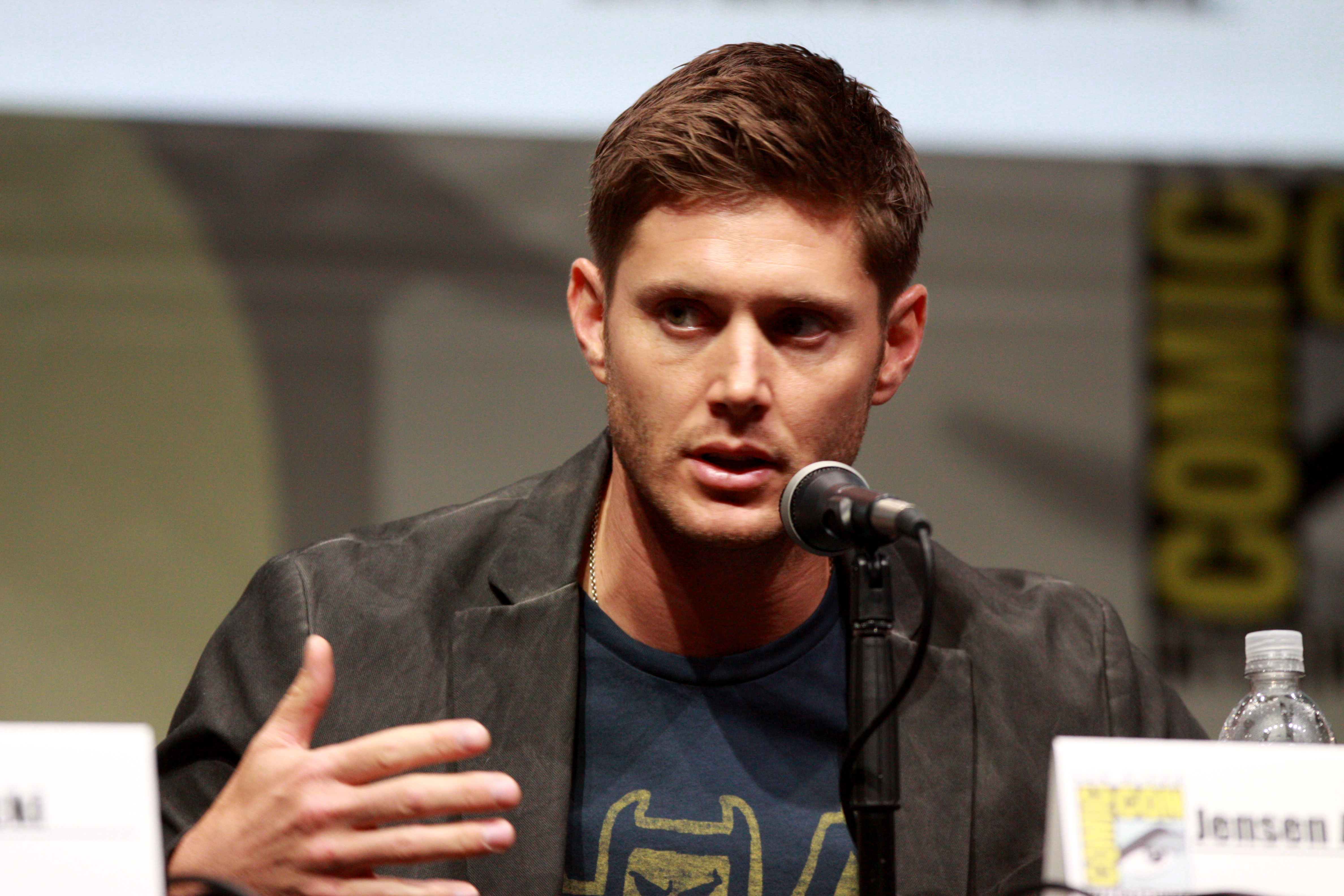 Jensen Ackles speaking at the 2013 San Diego Comic Con International, for "Supernatural", at the San Diego Convention Center in San Diego, California.